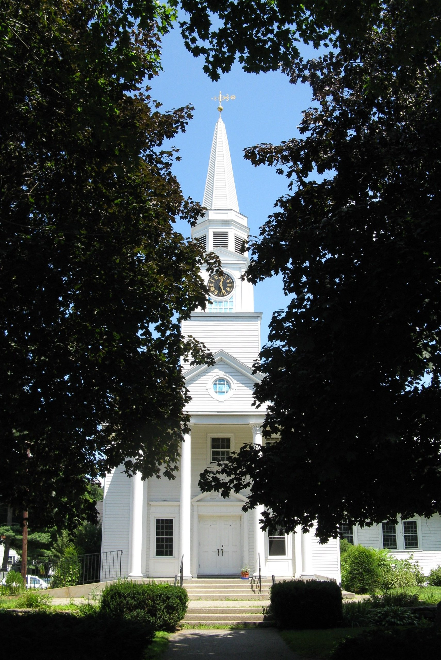 Sturbridge Federated Church, Sturbridge Massachusetts